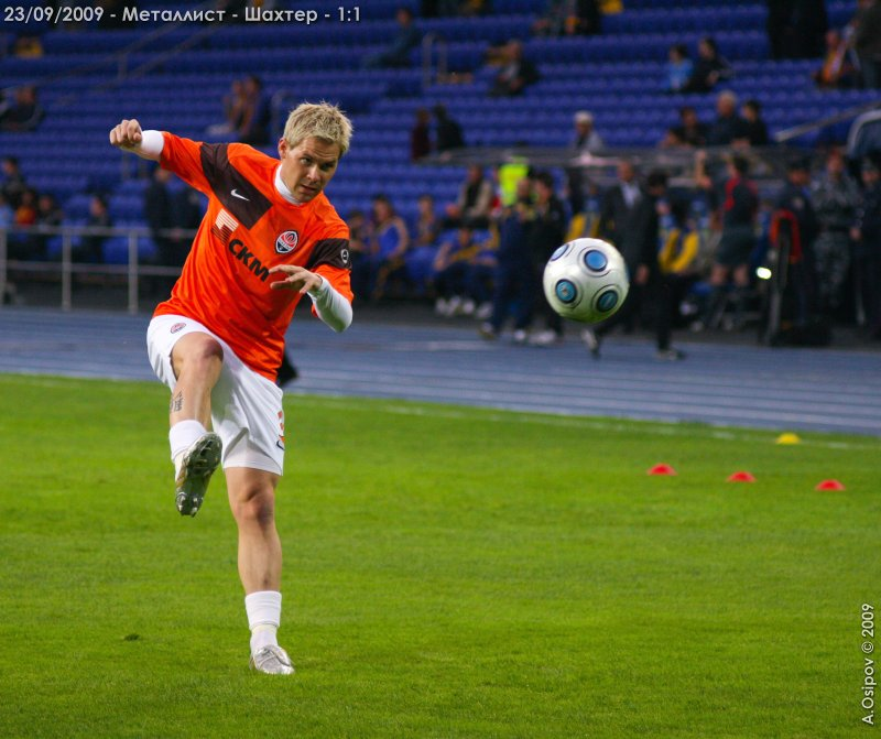 Tomáš Hübschman, Czech footballer, during the game for Shakhtar Donetsk